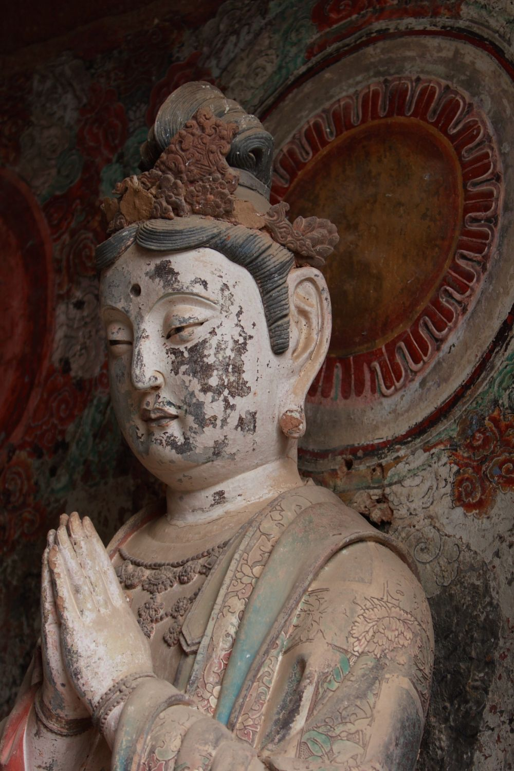 Bodhisattva statue at MaiJiShan, Tianshui,Gansu,China.